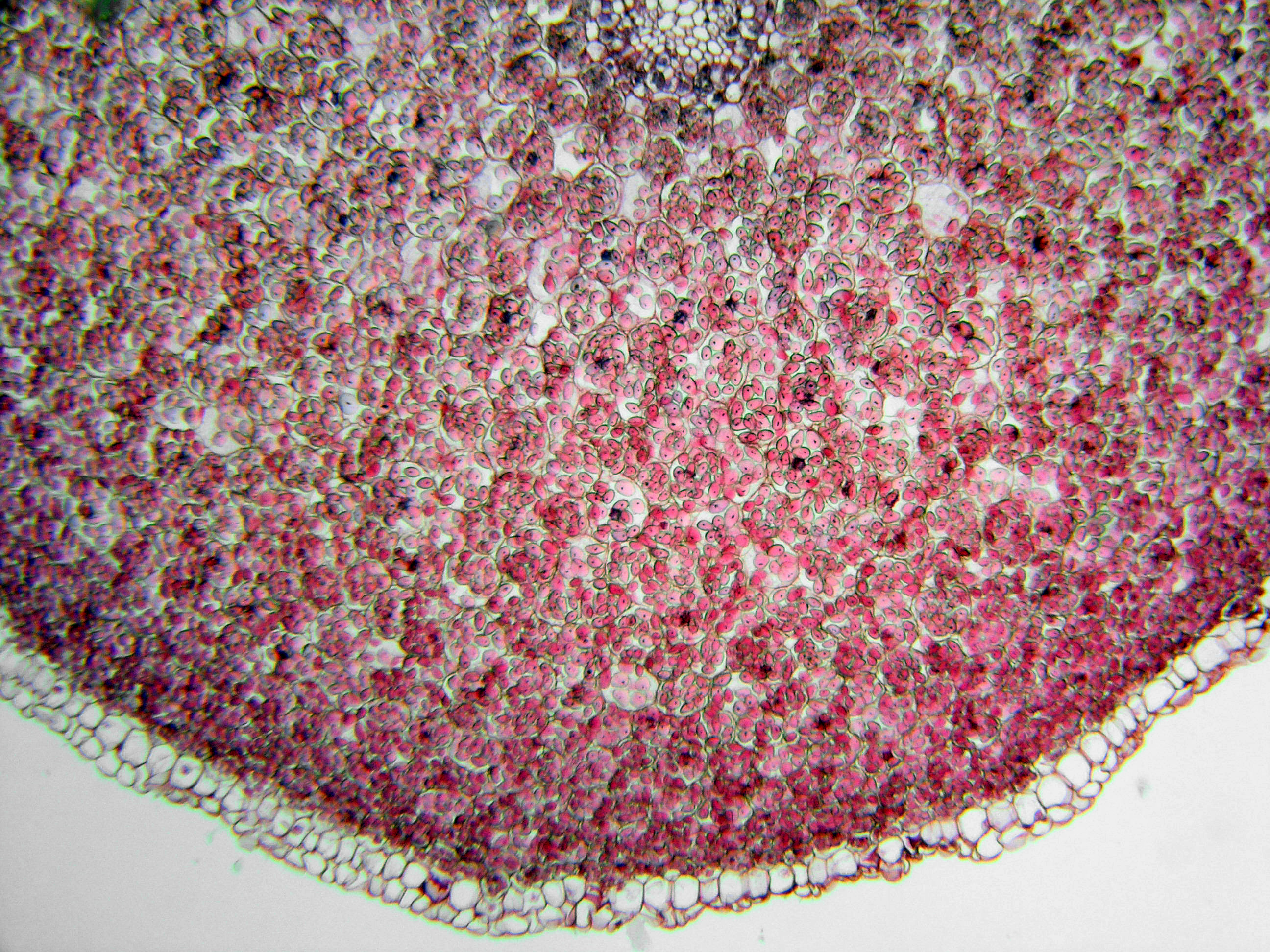 detail of Ranunculus ficaria root showing storage parenchyma